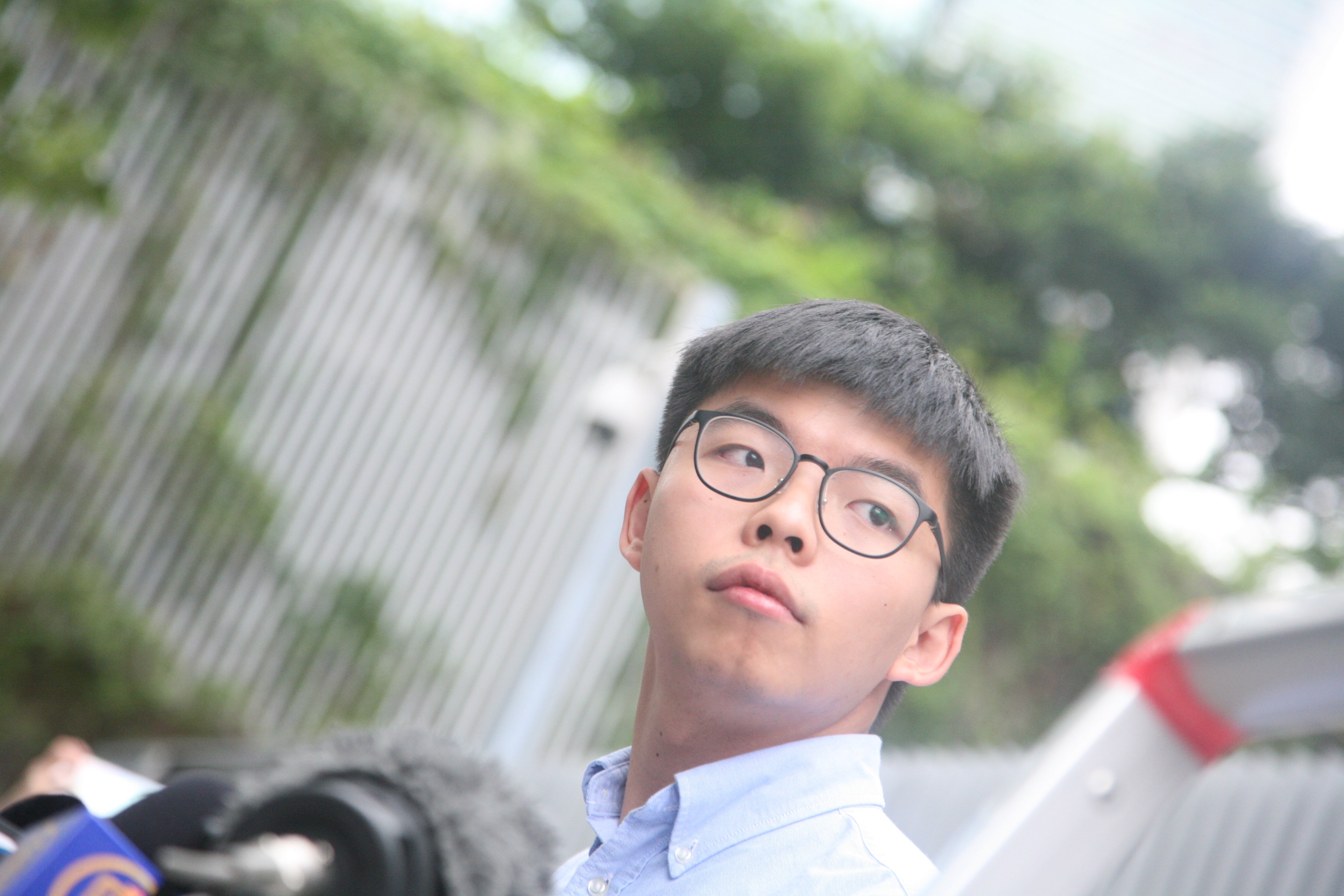 Joshua Wong was banned from the election by the government of Hong Kong on October 29, 2019. 粵語: 2019年10月29號，香港政府剝奪咗黃之鋒參選權。